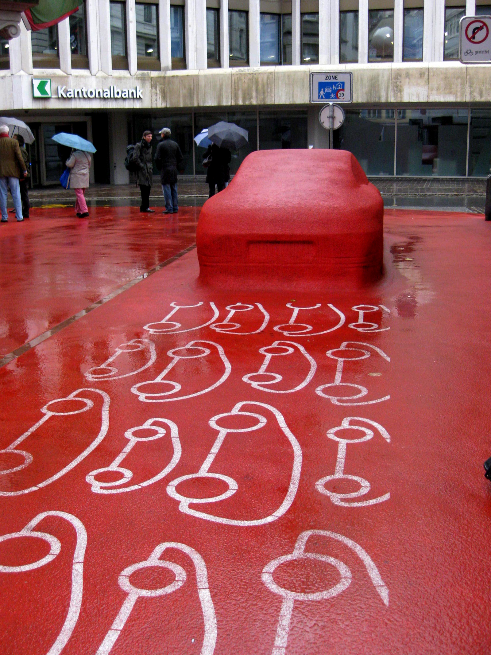 Pipilotti Rist (artist), Carlos Martinez (architect), City Lounge, 2005, - Switzerland, Canton of St. Gallen, St. Gallen